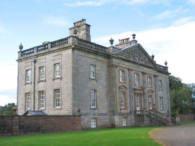 Auchinleck House, Ayrshire